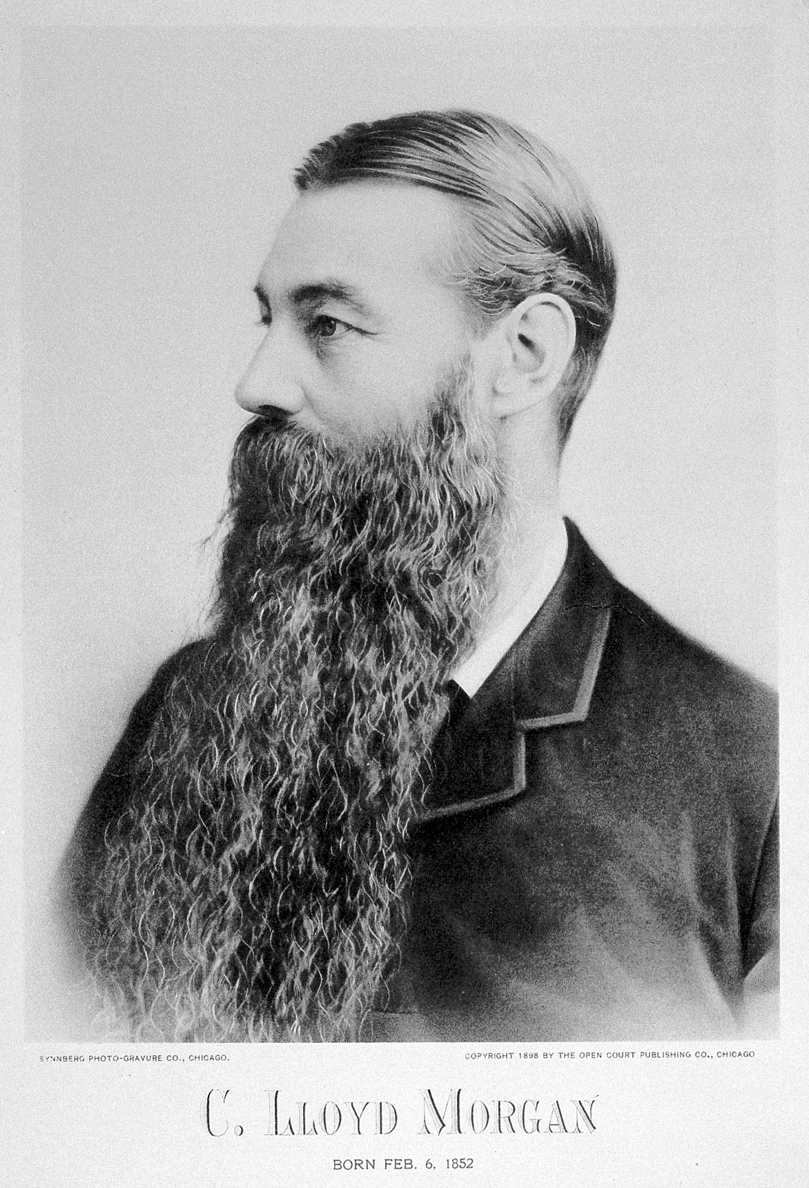 C. Lloyd Morgan. Photogravure by Synnberg Photo-gravure Co., 1898. Iconographic Collections Keywords: Conwy Lloyd Morgan; Synnberg Photo-gravure Co..